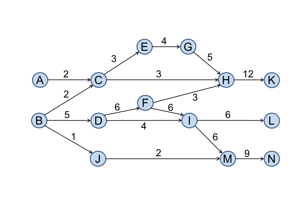 This figure shows the SPLC values for each link in a sample citation network.